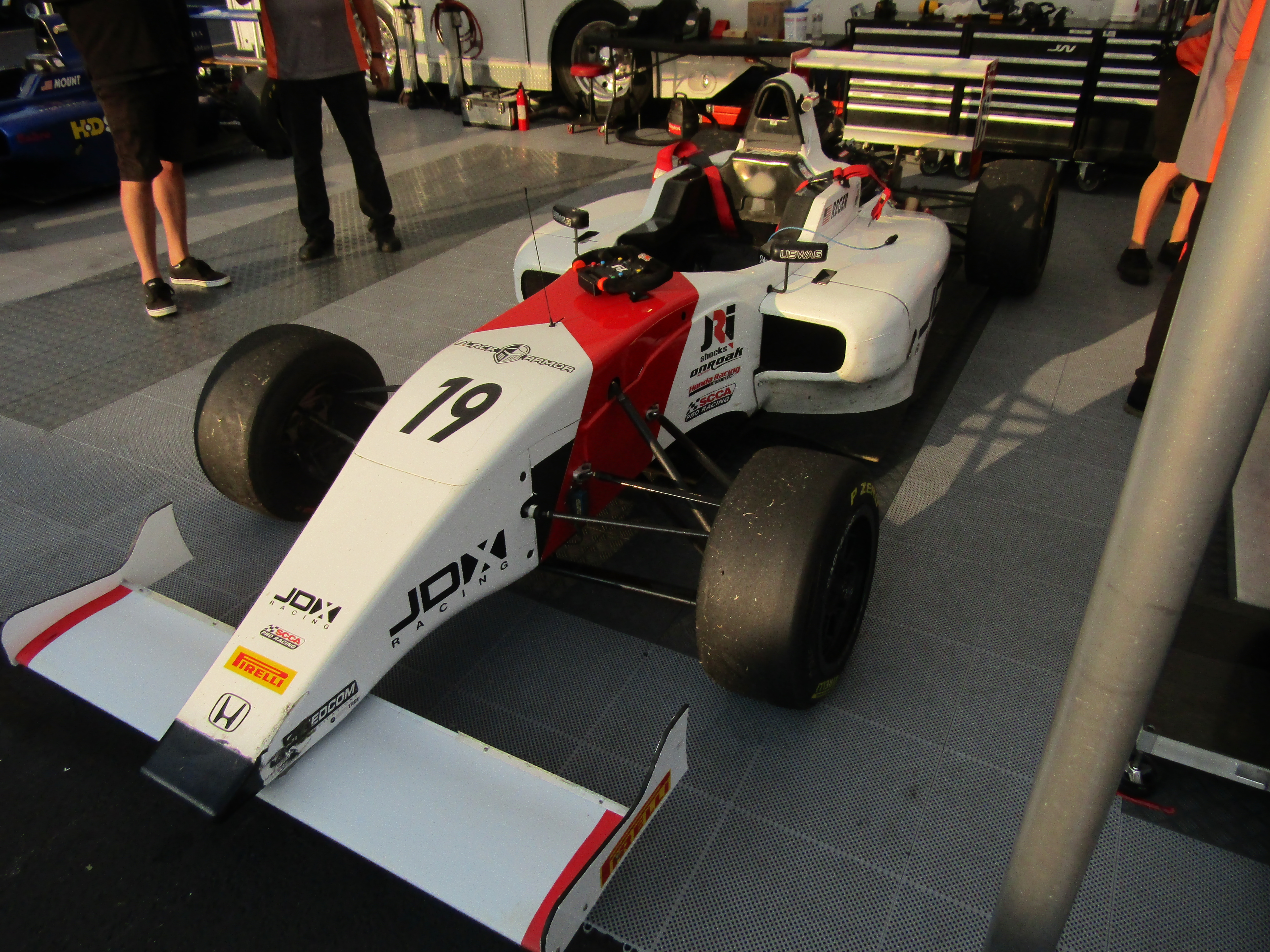 2017 Formula 4 United States Championship.